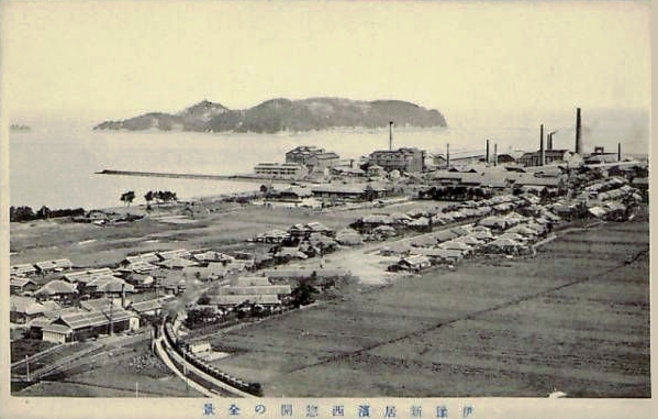 Toyo Port in Niihama, Ehime pref., Japan.